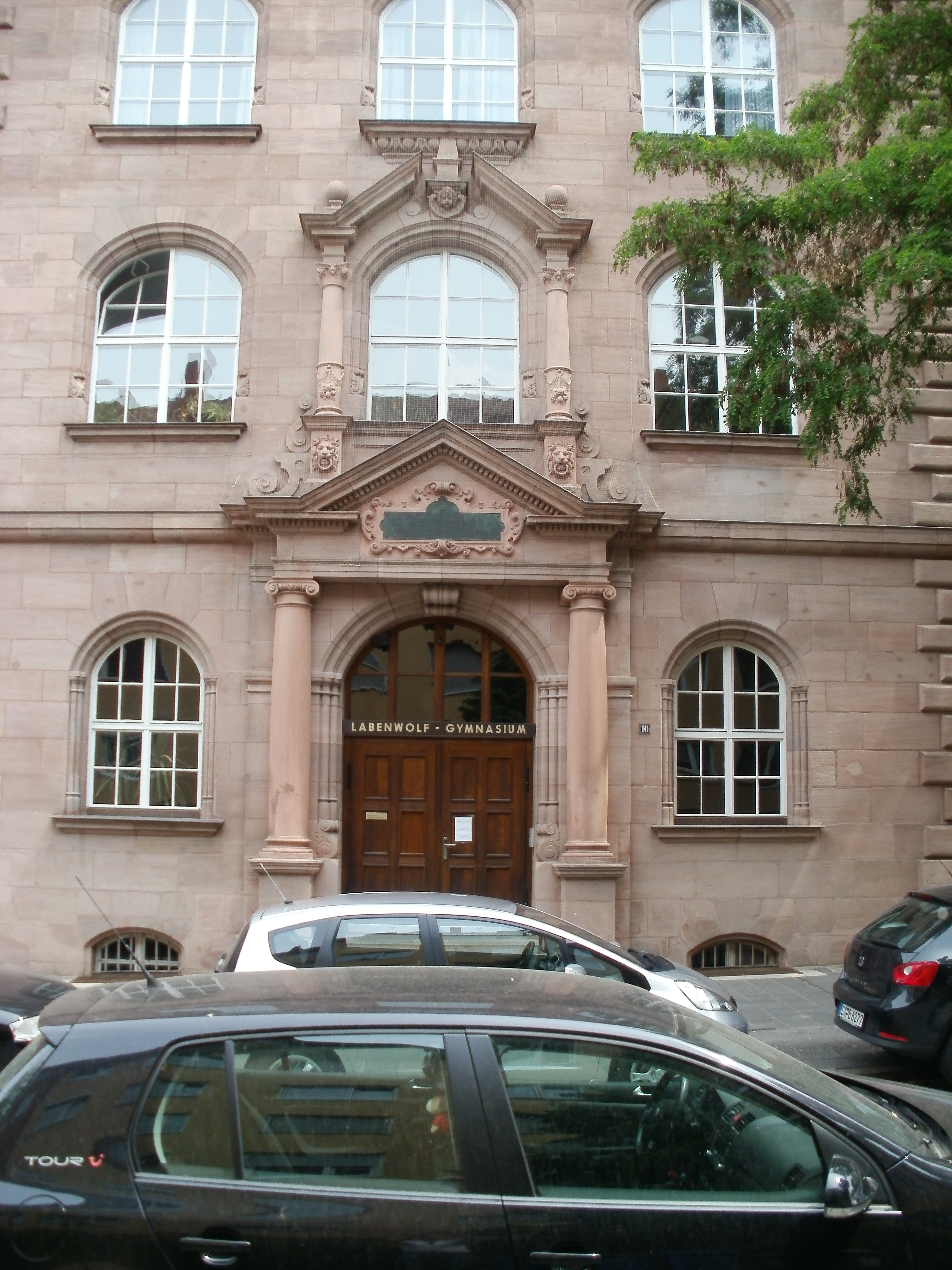 Portal des Labenwolf-Gymnasiums